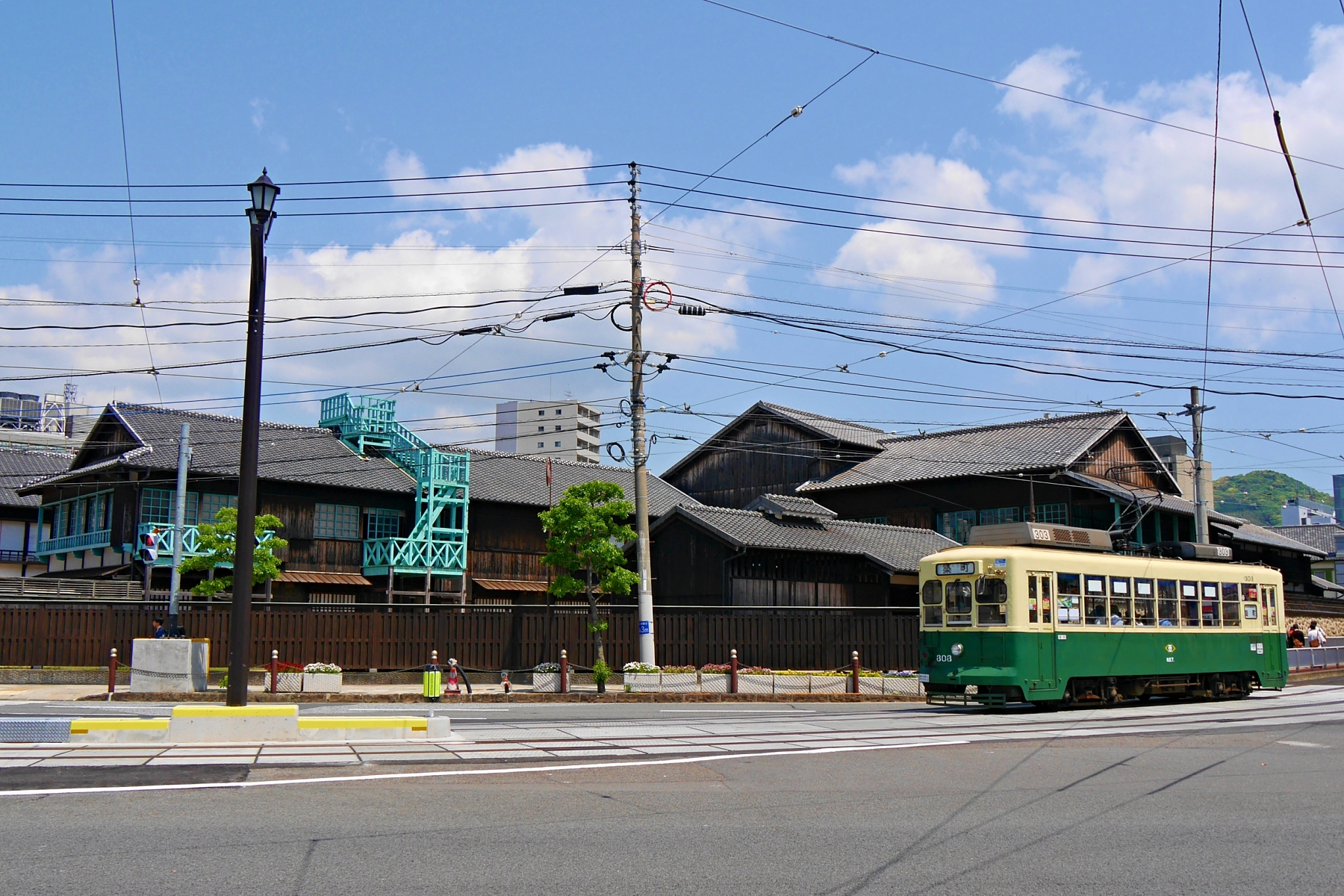 Dejima and tram(Nagasaki,Japan)